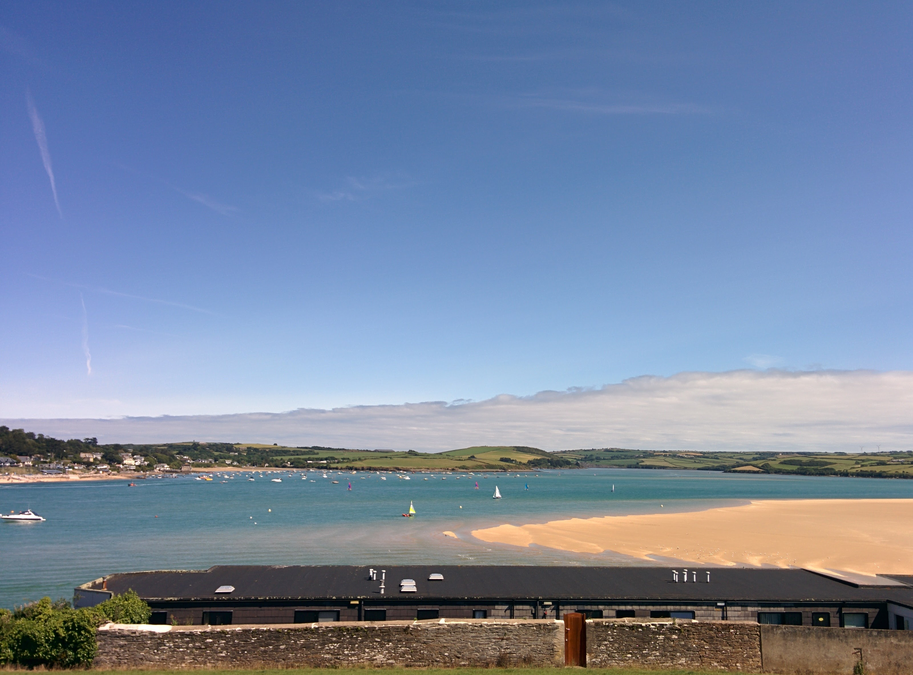 Rock, Cornwall, England